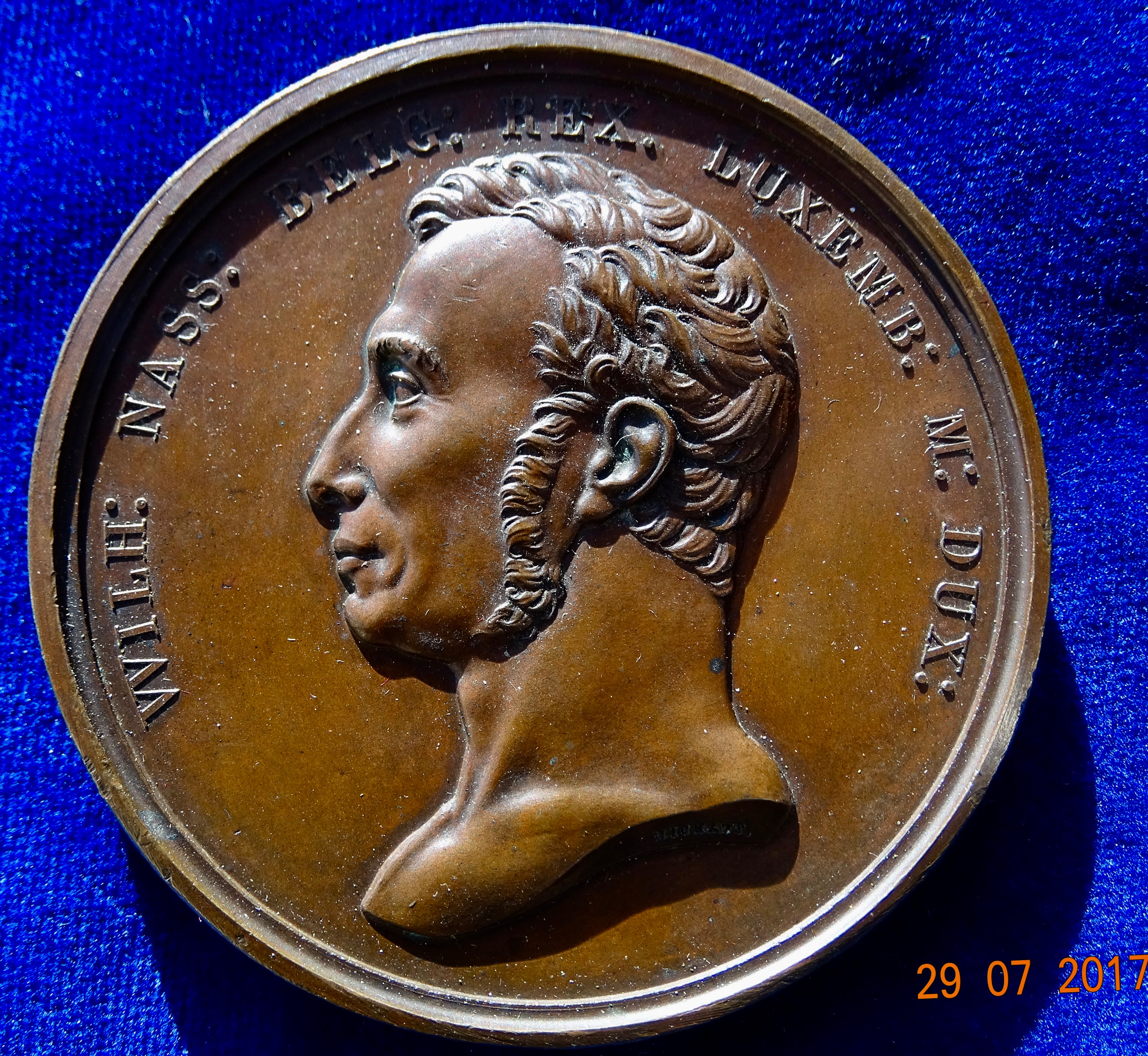 The Netherlands & Belgium 1815 Unification Medal of William I, Prince of Orange-Nassau. Bronze medal, d. = 72 mm. William I (Willem Frederik, Prince of Orange-Nassau), King of the Netherlands and Grand Duke of Luxembourg, 1815-1840 Head l., around: "WILH: NASS: BELG: REX. LUXEMB: M: DUX:"/ Fama Belgica l. and fama Hollandia r. holding hands above 2 arms conjoined by a crown. 2 lines below: "* POSTRID. ID. MART. CICIC CCCXV.", around: "* PARIBUS SE LEGIBUS AMBAE INVICTAE GENTES AETERNA IN FOEDERA MITTUNT *". Wurzbach 9751; Forrer IV , p. 64. Medallist: (Auguste Francois) Michaut, 1786 Paris - 1879 Versailles Condition: Almost UNCIRCULATED.